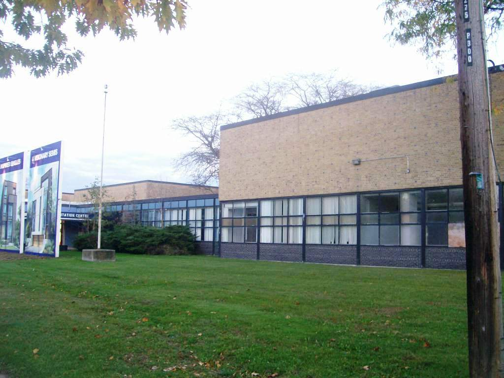 View of Alderwood CI (Father John Redmond CSS, f/ka Michael power-St. Joseph HS, South Campus) vacant in October 2013. This building was demolished and replaced with housing (Treeview Drive, Father Redmond Way, and Vaudeville Drive).